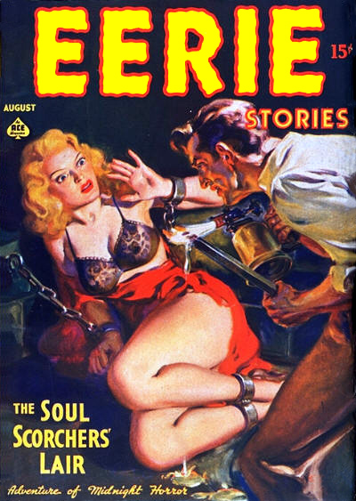 "The Soul Scorcher's Lair": another virtuoso cover by the incomparable Norman Saunders. From Eerie Stories volume 1 number 1, August 1937.